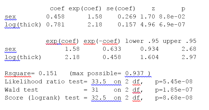 Cox PH output for melanoma data set from Dalgaard R package ISwR with covariate thickness